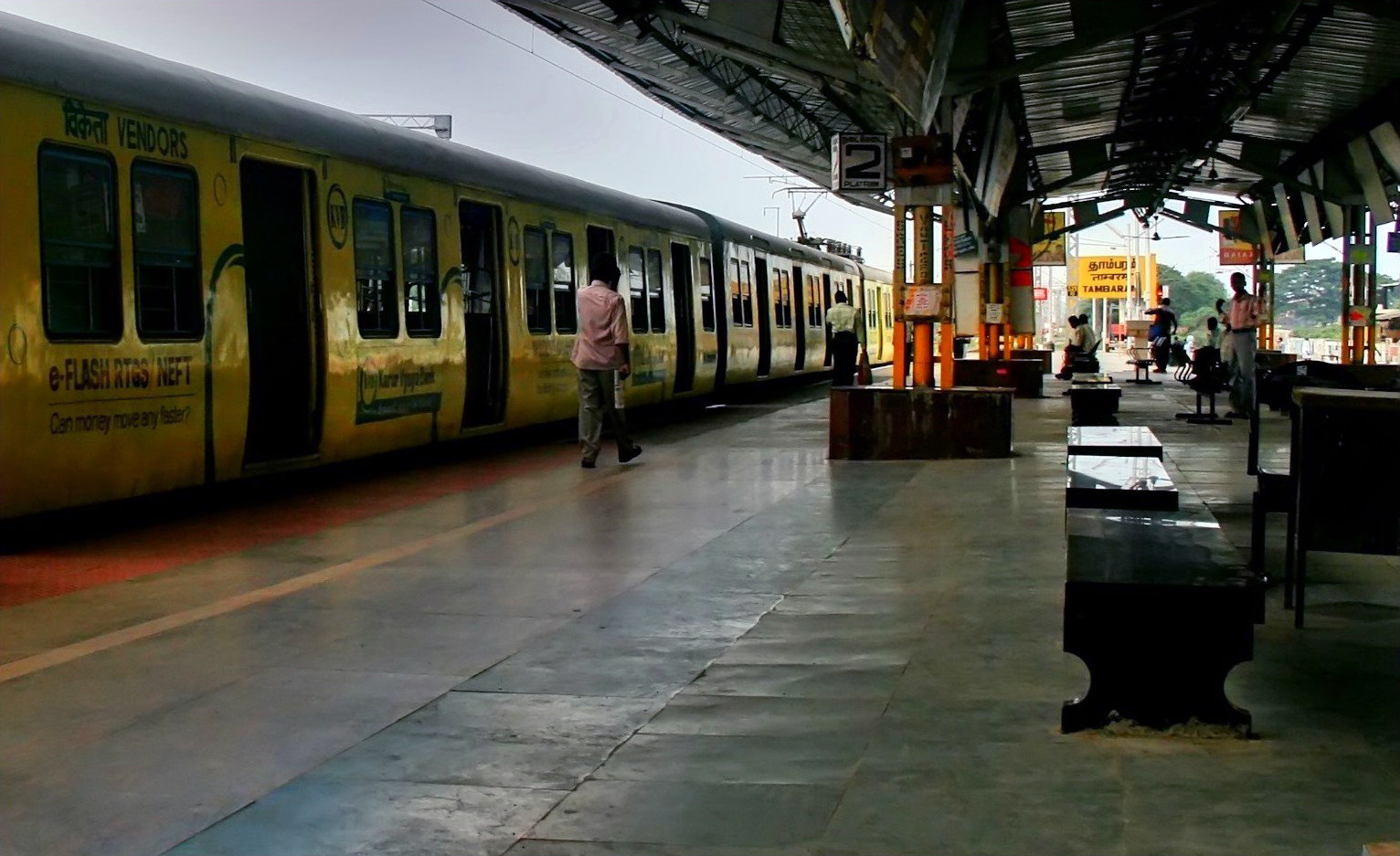 Tambaram Railway Station. Donated as part of WP:WTCI